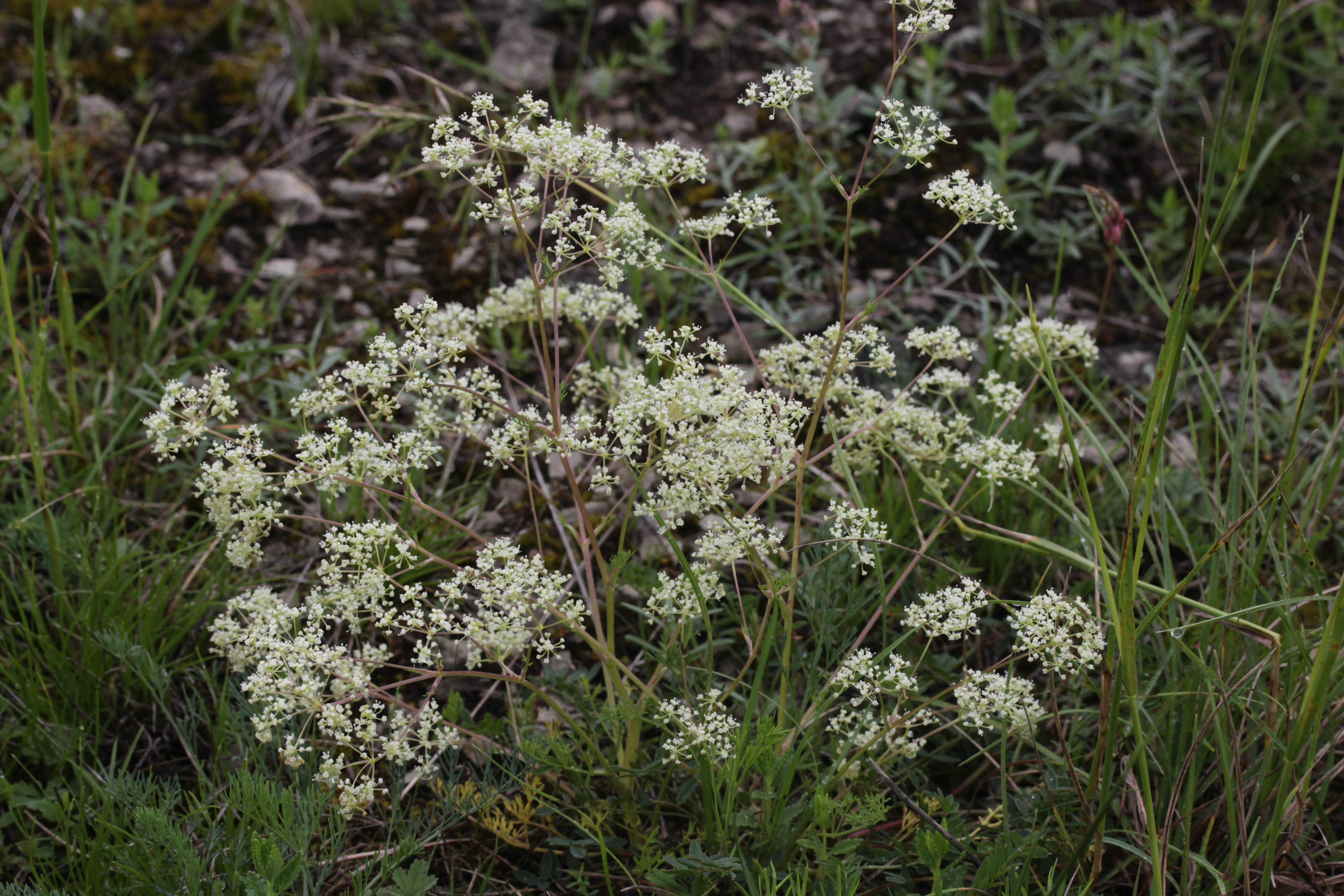 Honewort - Trinia glauca